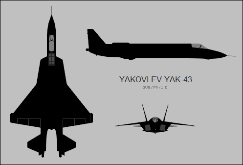 Three-view illustration of the Yakovlev Yak-43, a proposed advanced version of the Yak-41/Yak-141.